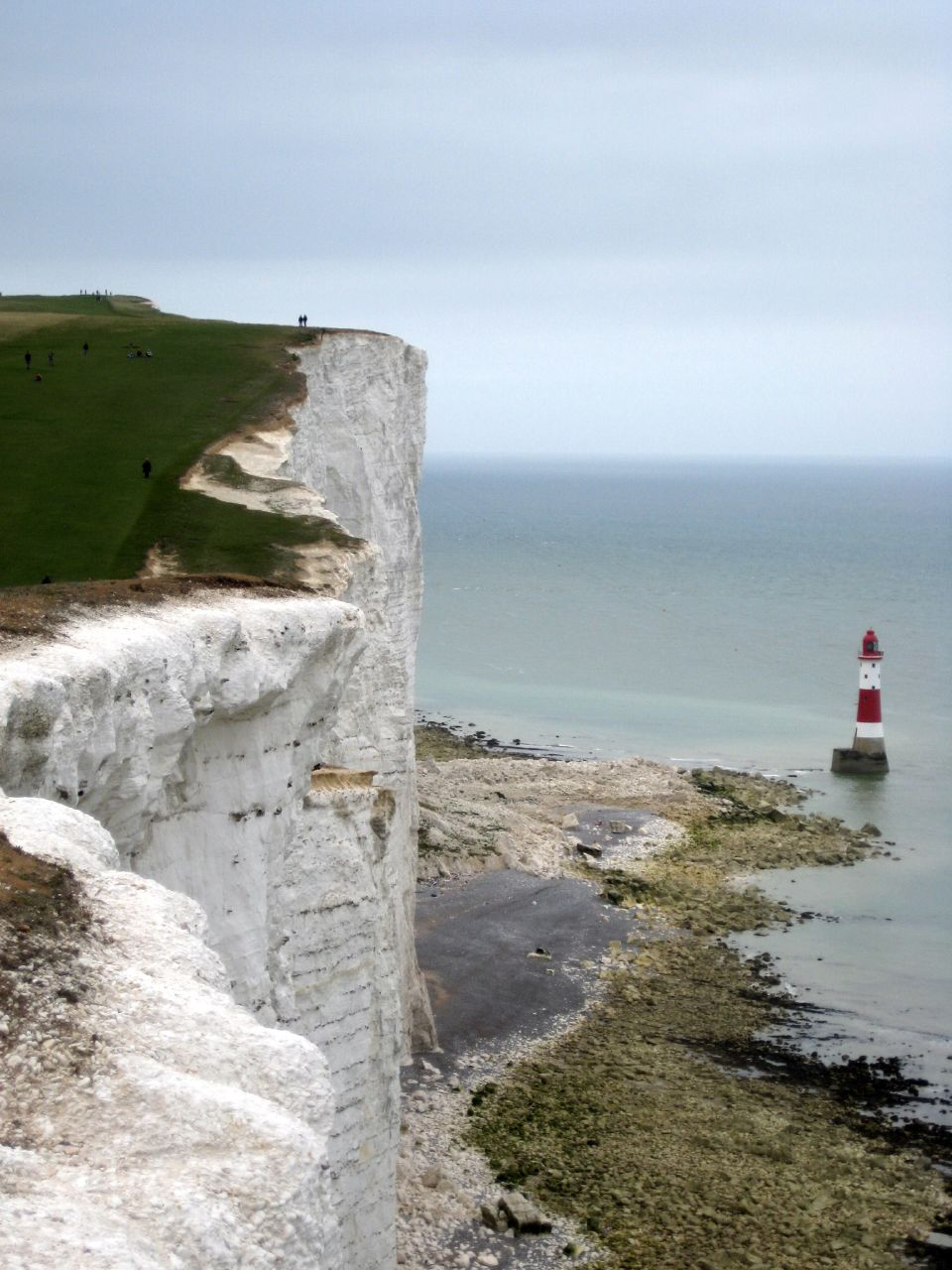 Summary: Beachy Head lighthouse Eastbourne, England Author: Teddy Sipaseuth